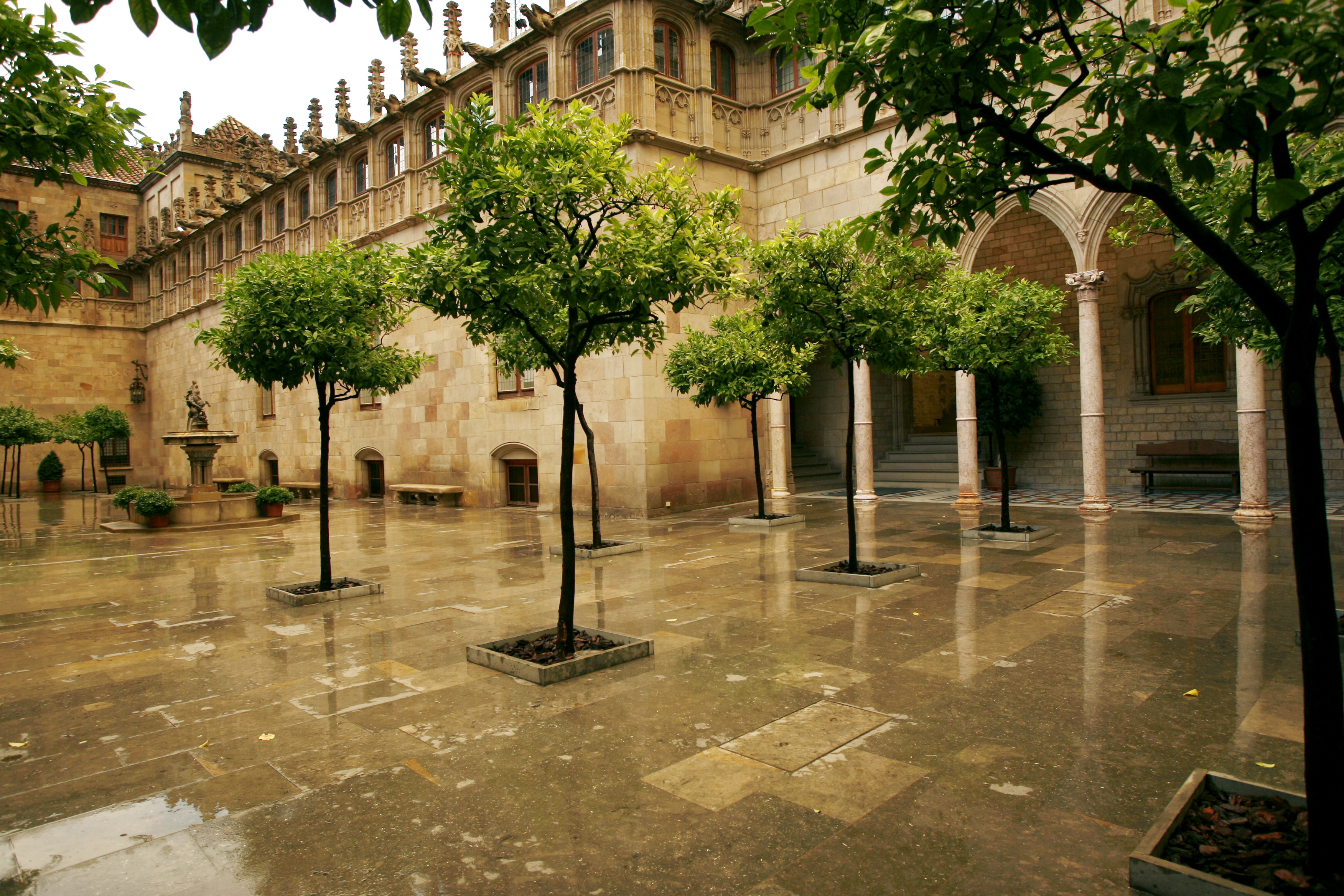 The Pati dels Tarongers ("Orange Tree Courtyard") is located at the Palace of the Generalitat, the seat of the Catalan Government in Barcelona